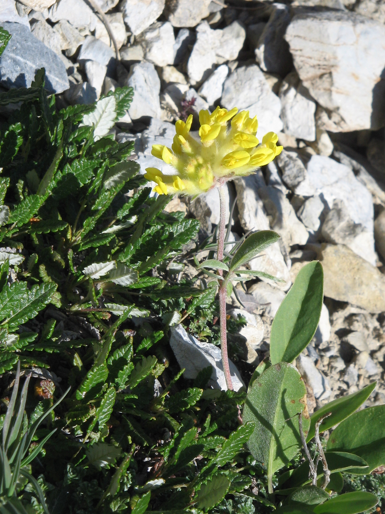 Anthyllis vulneraria subsp. alpestris